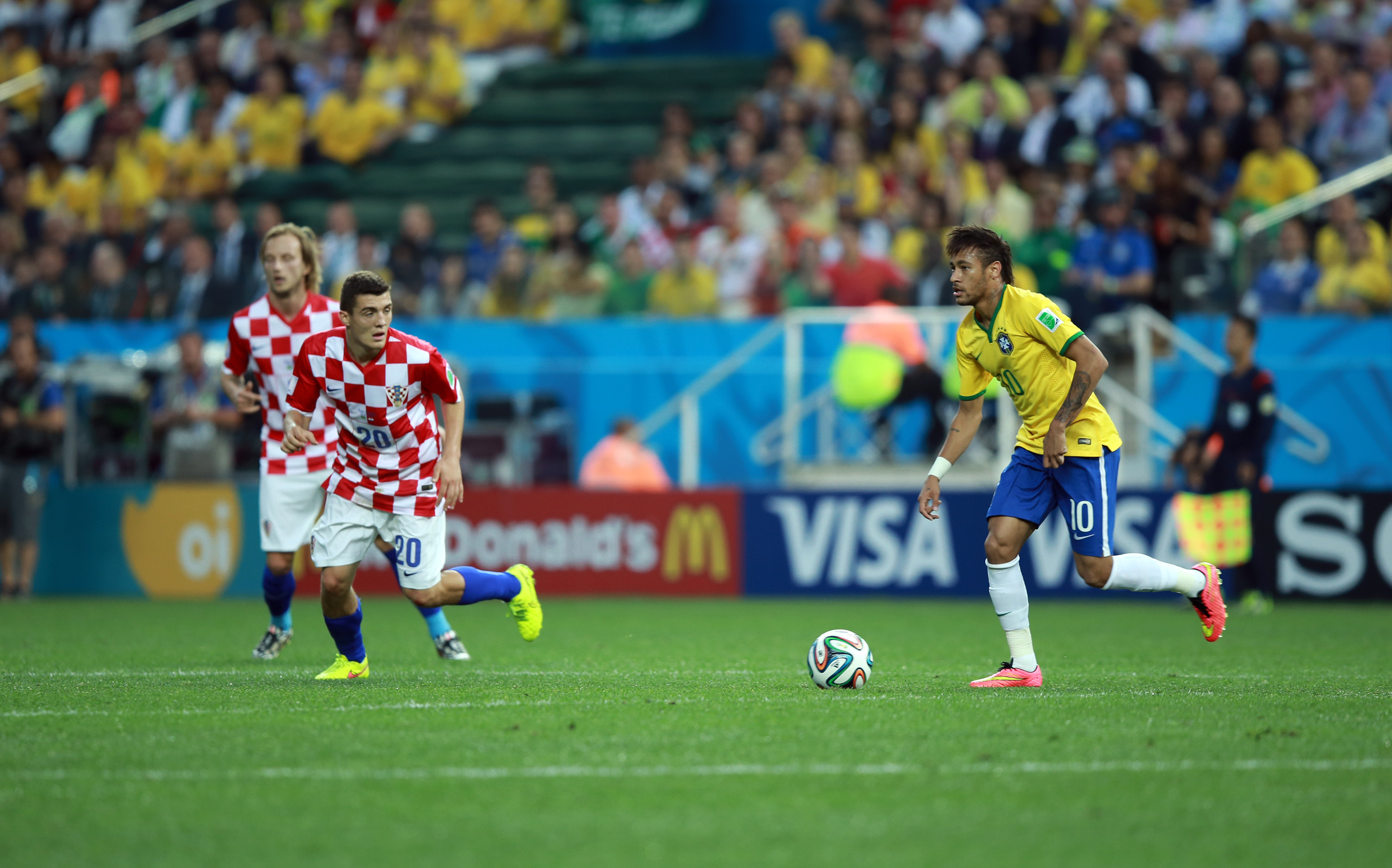 Brazil and Croatia match at the FIFA World Cup 2014-06-12